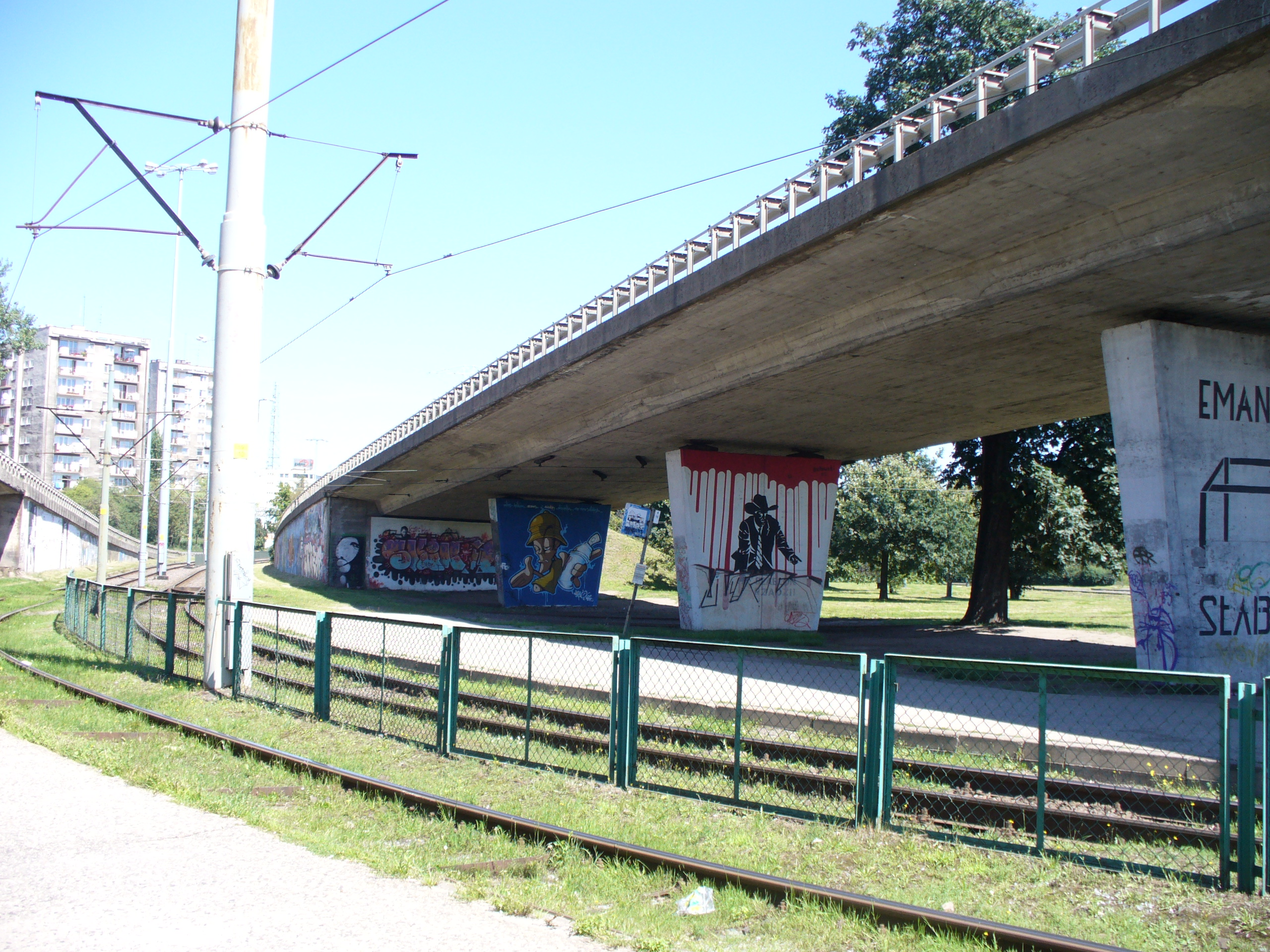 Tram tracks in Gdansk.